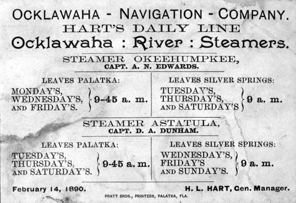 Schedule card for the Hart Line Ships - Palatka, Florida